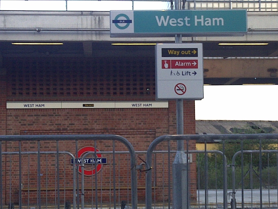 West Ham Station May 2011. View from Manor Road showing the new DLR Sign in the foreground and the Jubilee Line Sign in the background